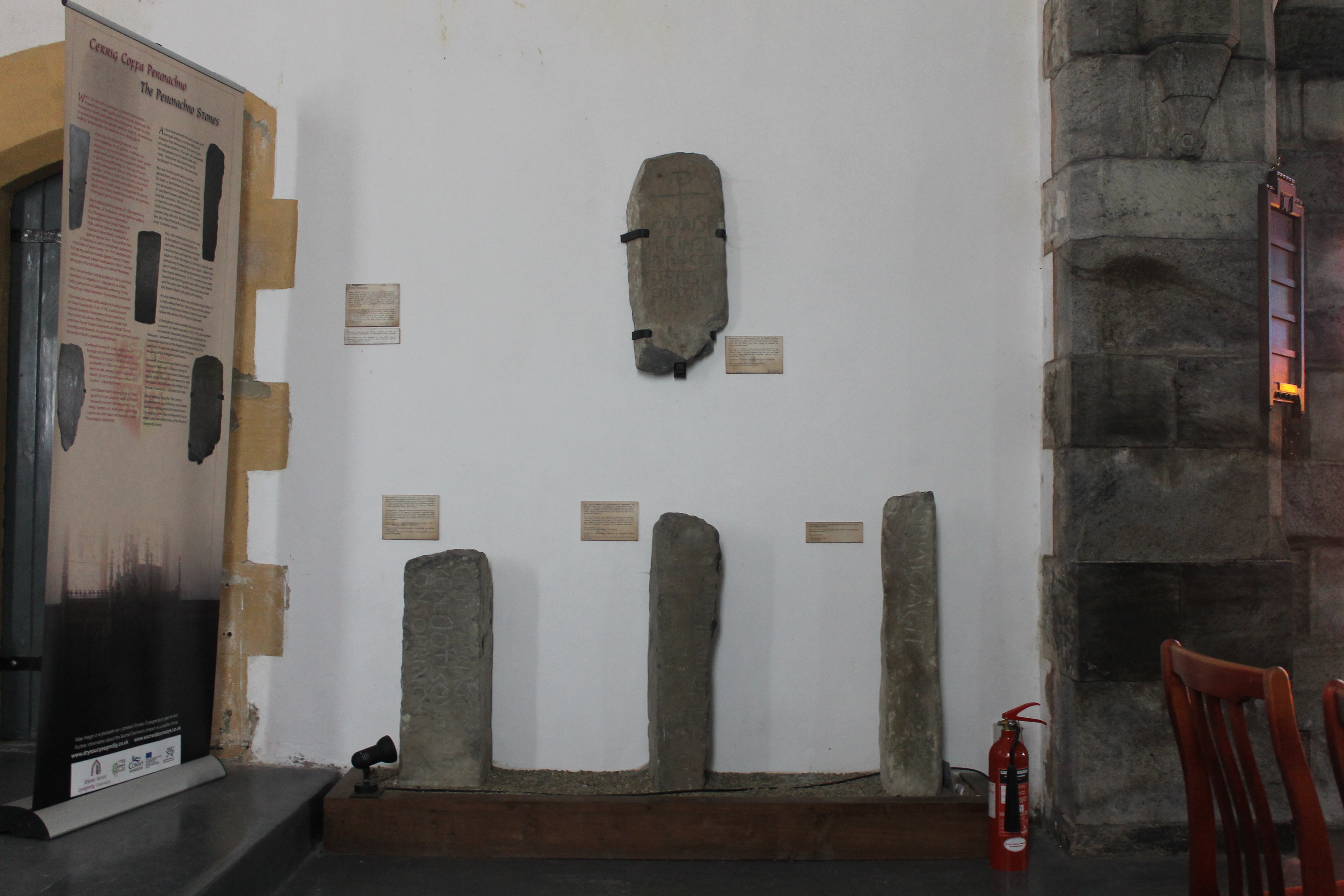 Parish Church of St Tudclud, Penmachno, Gwynedd, Wales. A Grade II Listed Building. The church was built following demolition of old church c1857.